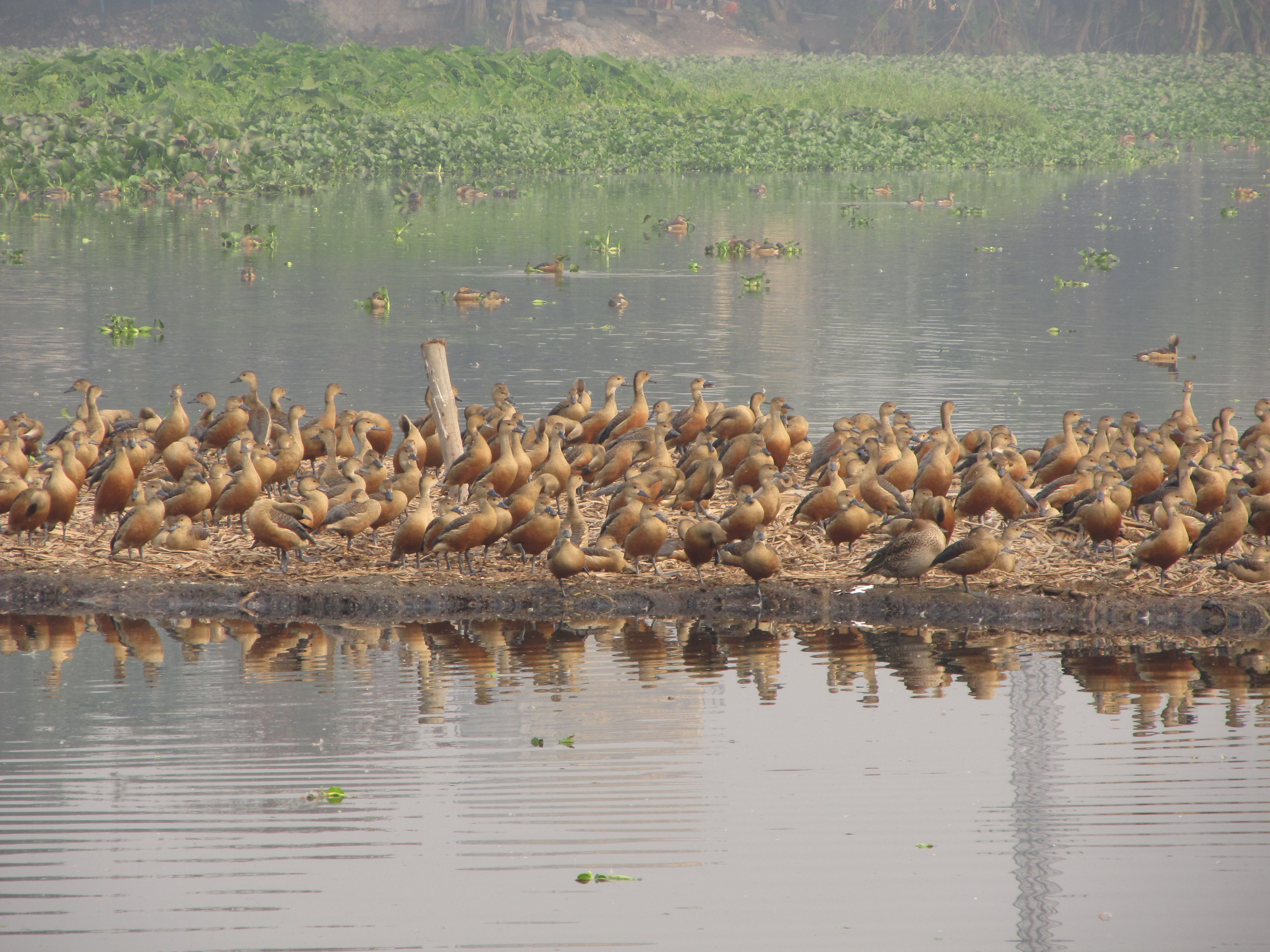 Santragachi Lake (bn: Santragachi Jheel) located adjacent to the Santragachi railway station, Howrah, India. There are many lakes at Santragachi but only one lake attracts large number of migratory birds in the winter in October to March. Lesser Whistling Duck is the most dominant species visible here; Northern Pintail, Baikal Teal and other migratory birds are also visible. The lake area is owned by South Eastern Railway, India, though the Forest Department of West Bengal also looks after the place. Forest ministry of the Government of West Bengal intends to convert the lake to a Wildlife Conservation Centre.